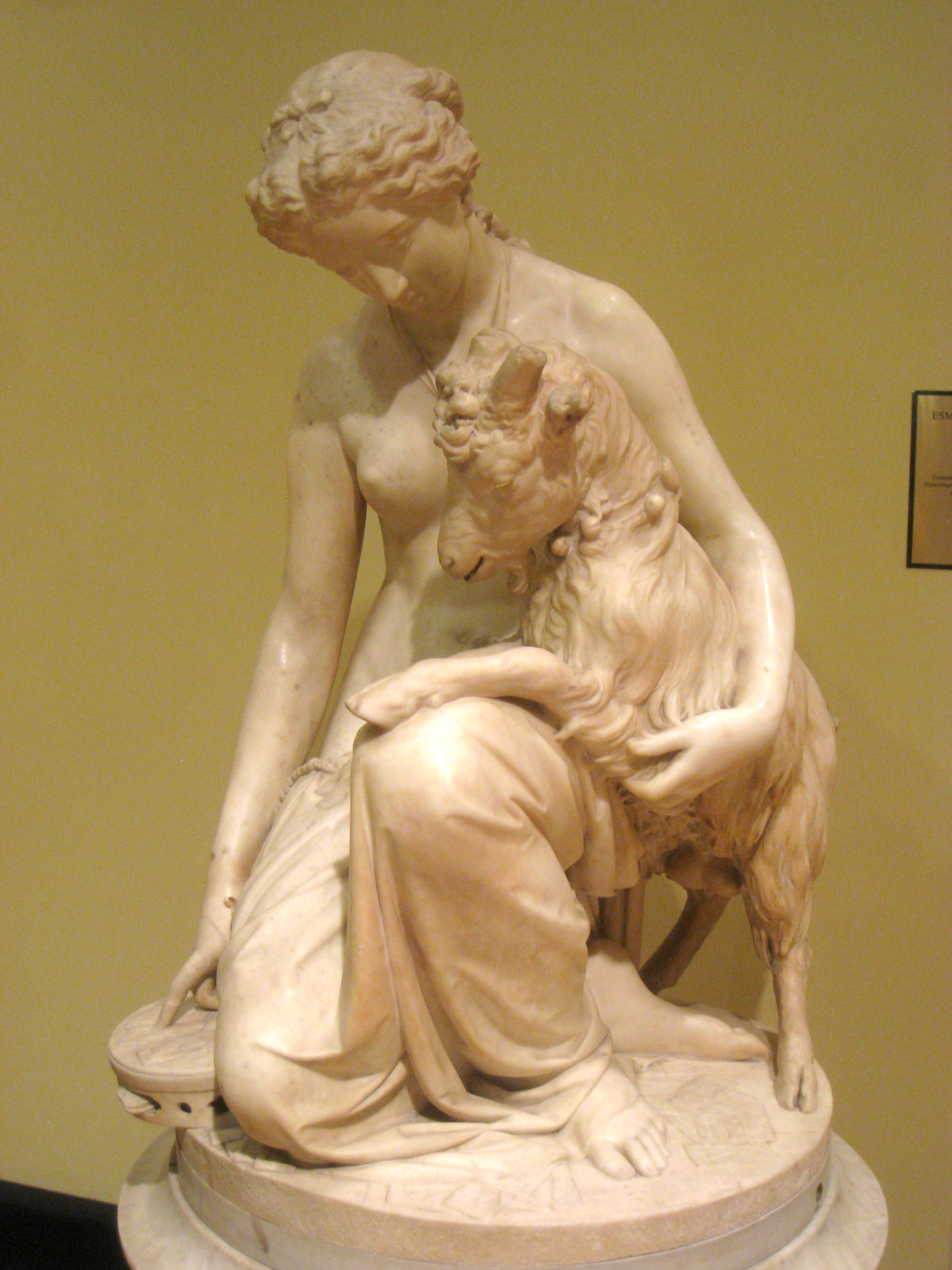 "Esmeralda and the Goat, Djali", 1865, by Antonio G. Rossetti (d. 1870). Statue in Main Building, Drexel University, Philadelphia , Pennsylvania, USA.